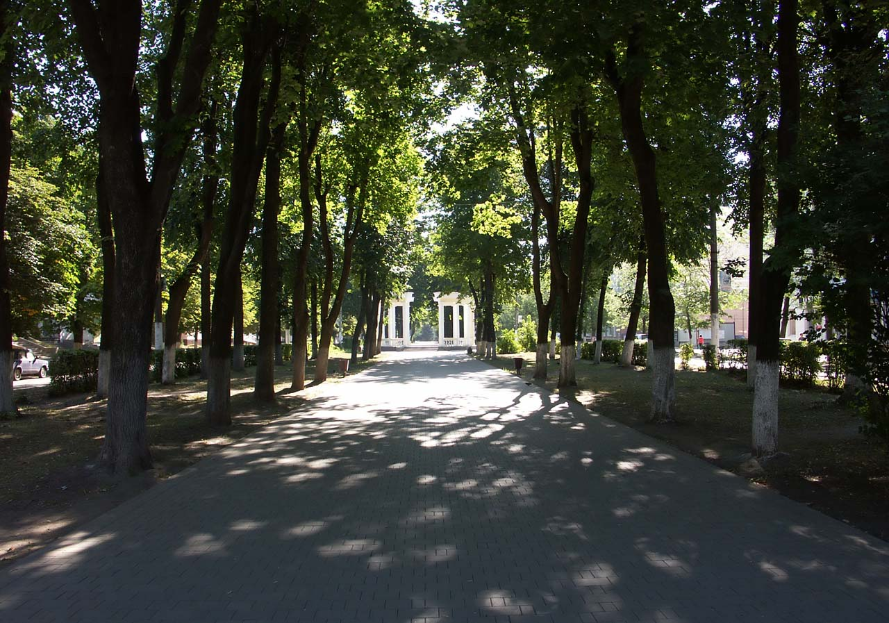 Komsomolskaya street